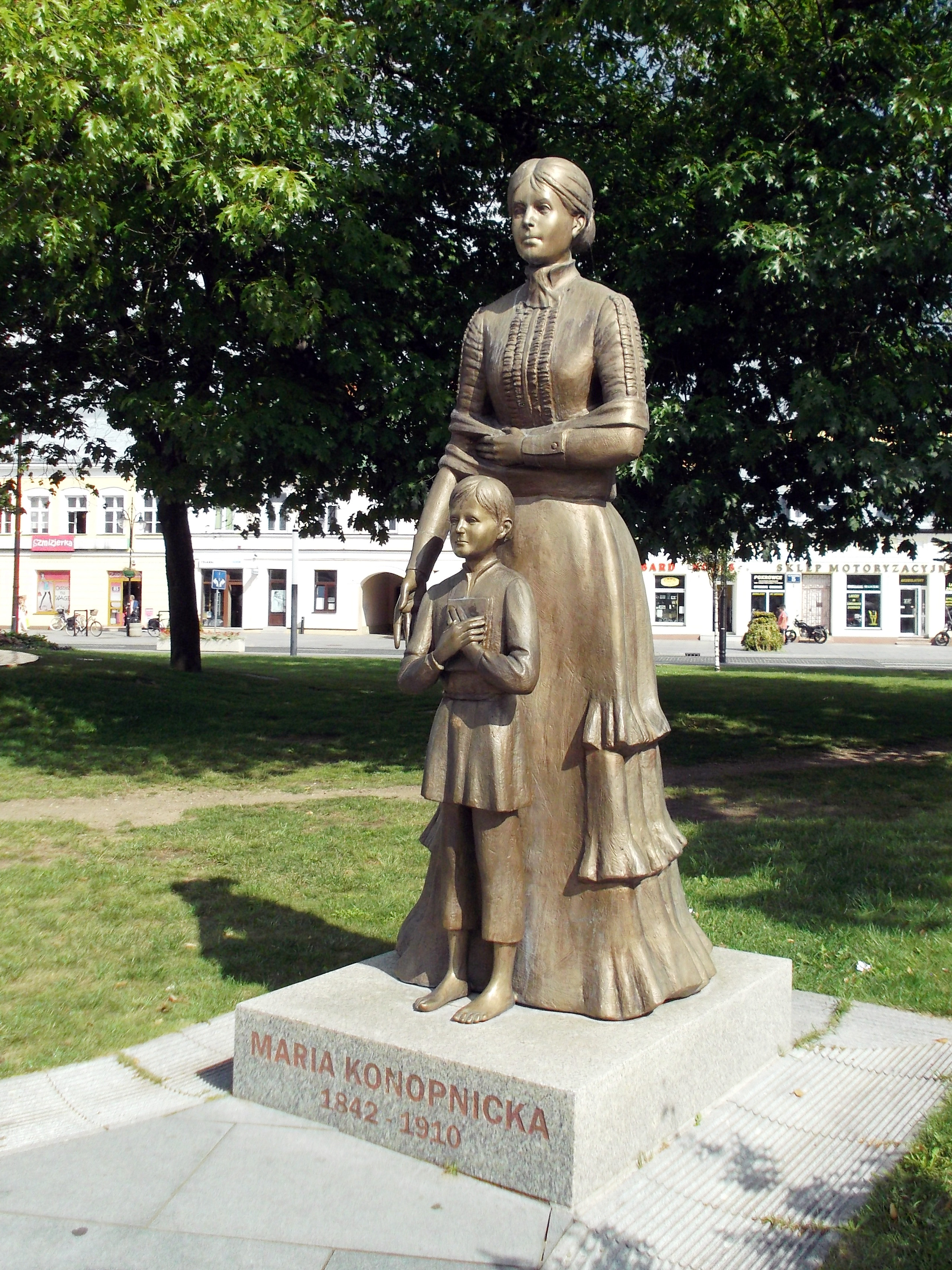 Maria Konopnicka monument in Suwałki (Poland) at Maria Konopnicka Square.